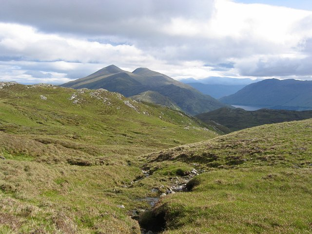 On Beinn na Cloiche. North of the summit, descending an easy part of the eastern side of the hill. Beyond are Stob Coire Easain and Stob a'Choire Mheadhoin above Loch Trieg.